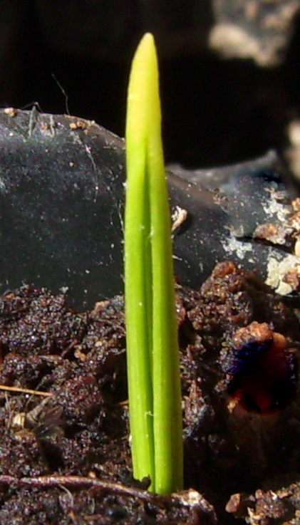 Single cotyledon of Dwarf palm (Chamaerops humilis) growing in a nursery, Barcelona, Catalonia